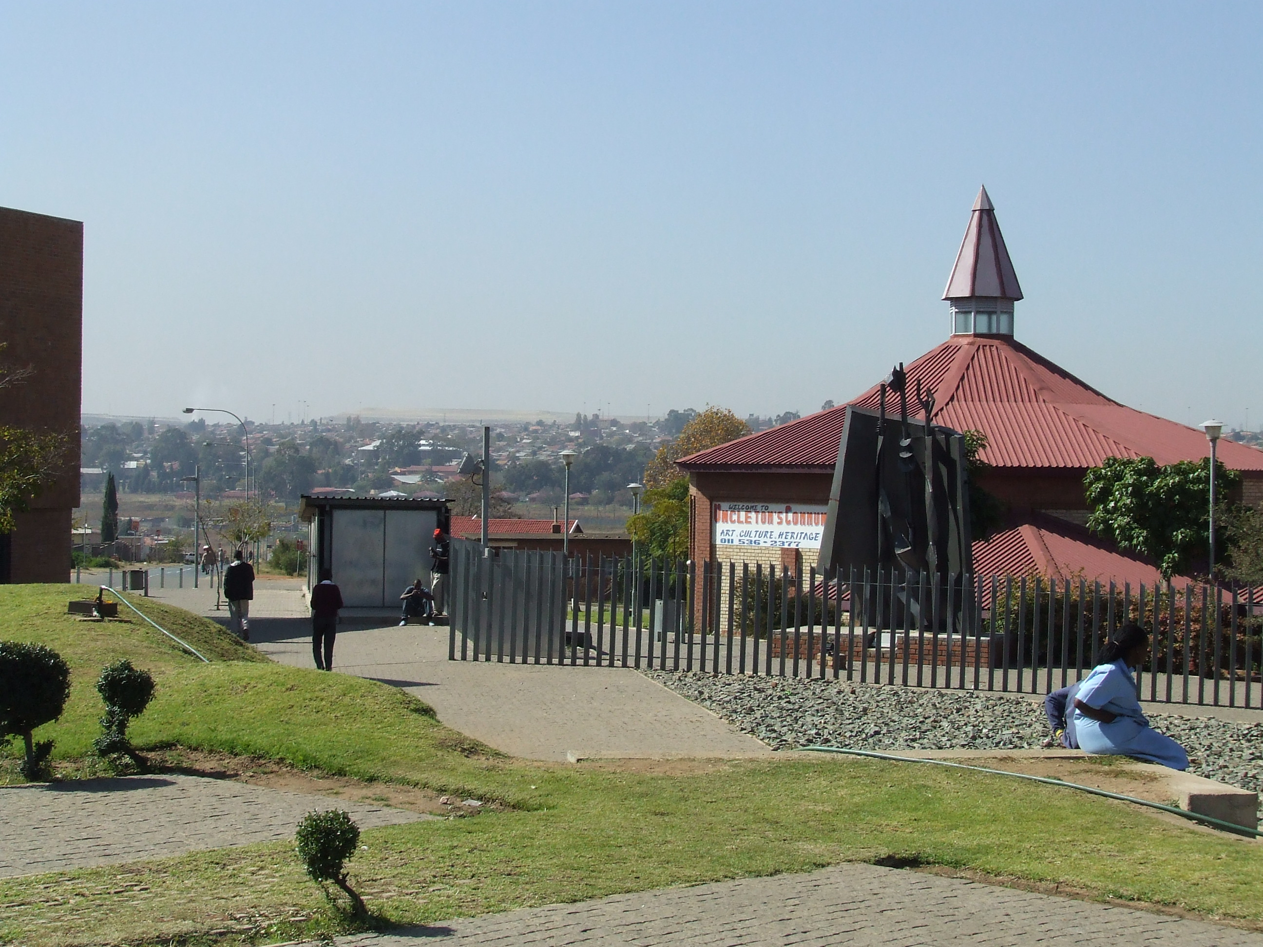 View east of church near Hector Pieterson Memorial, Orlando West, Soweto